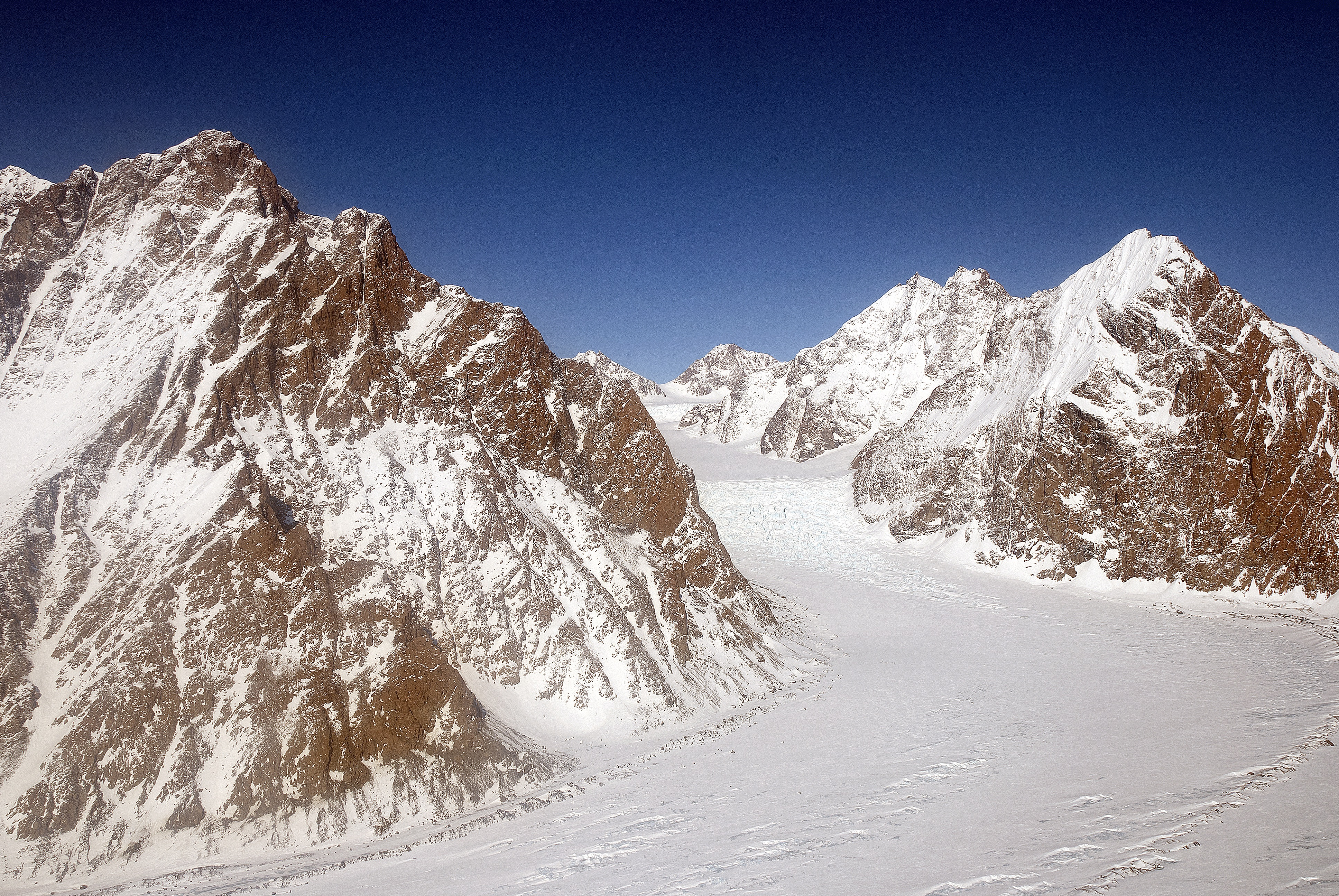 On April 19, IceBridge's 23rd flight of the Arctic 2011 campaign surveyed the centerline of Kangerdlugssuaq Glacier, Helheim Glacier, and several branches of Midgard Glacier. Midgard Glacier (pictured) has changed rapidly in recent years making it of particular interest to researchers. Credit: Michael Studinger Operation IceBridge, now in its third year, makes annual campaigns in the Arctic and Antarctic where science flights monitor glaciers, ice sheets and sea ice.